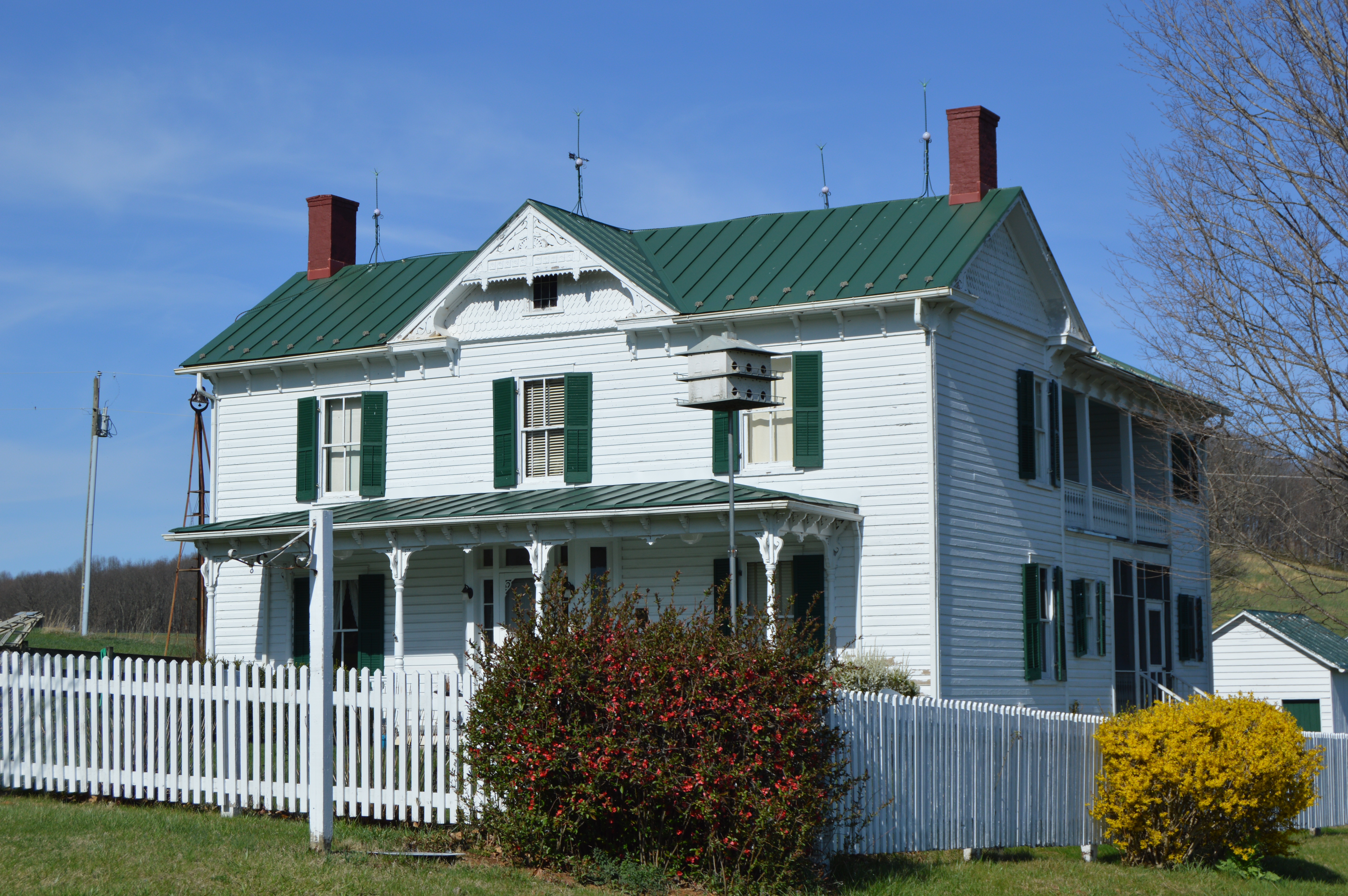 Front and southern side of the Maple Front Farmhouse, located on Cales Springs Road west of Middlebrook in Augusta County, Virginia, United States. Built in 1900, it is listed on the National Register of Historic Places.